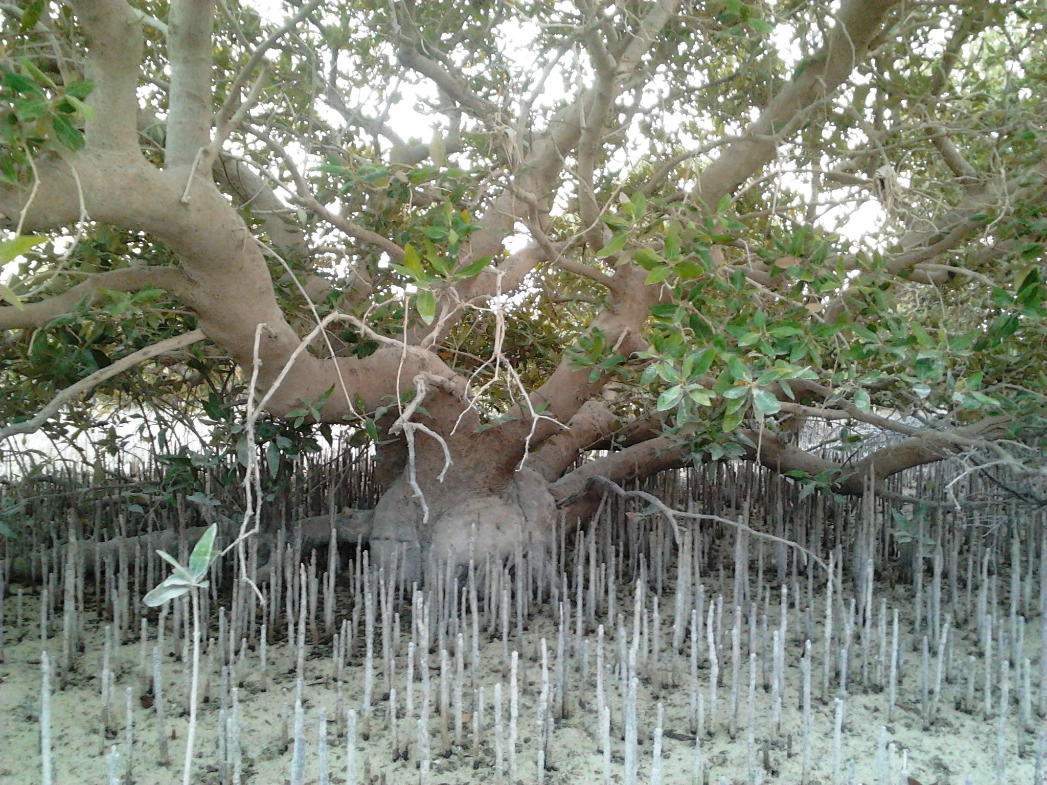 Mangrove tree at Dakhira beach, Qatar